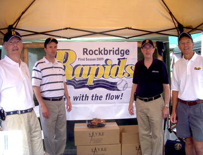 Congressman Bob Goodlatte visits the Rockbridge Rapids booth with Delegate Ben Cline at the Rockbridge Community Festival